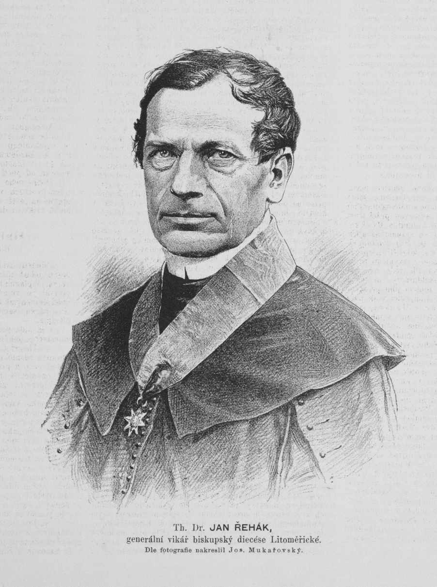 Portrait of Jan Nepomuk Řehák (1811-1901), Czech priest